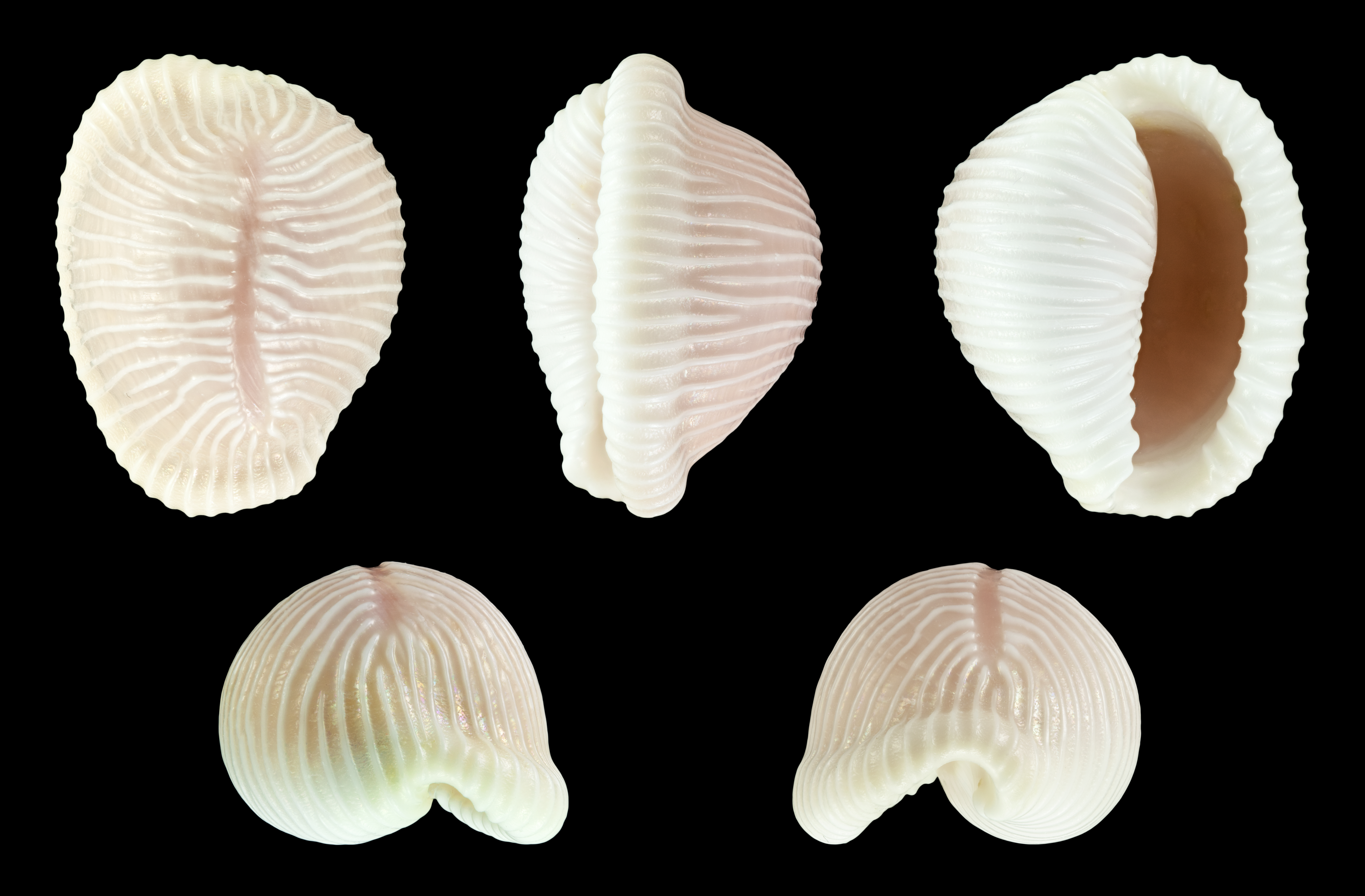 Triviella aperta (Swainson, 1822), Gaping Trivia; Length 2.8 cm; Originating from Jeffreys Bay, South Africa; Shell of own collection, therefore not geocoded.